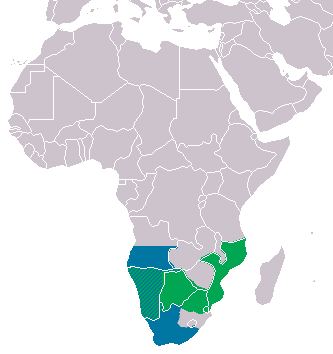 A very crude map of the range of Aspidelaps scutatus (green) and Aspidelaps lubricus (blue) based on the description in the text and BlankMap-World.